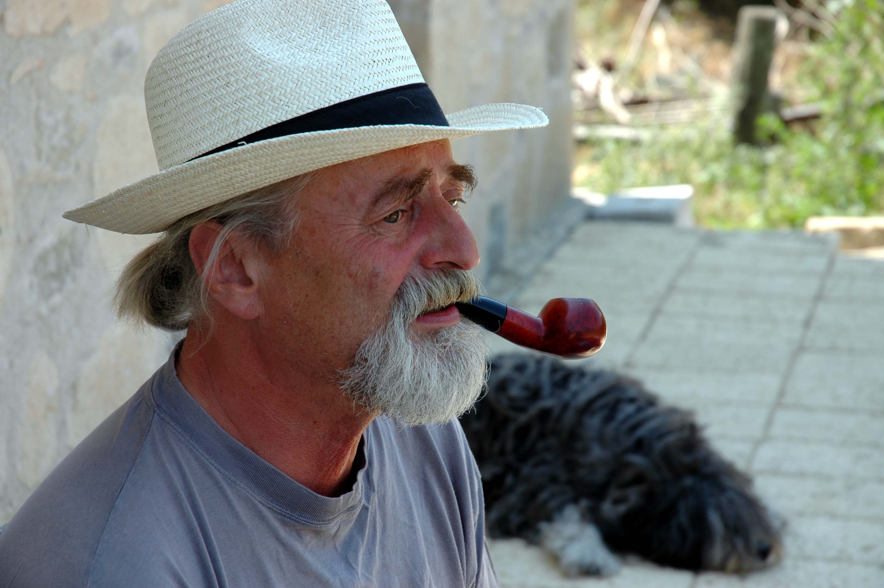 Portrait Eberhard Göschel 2005